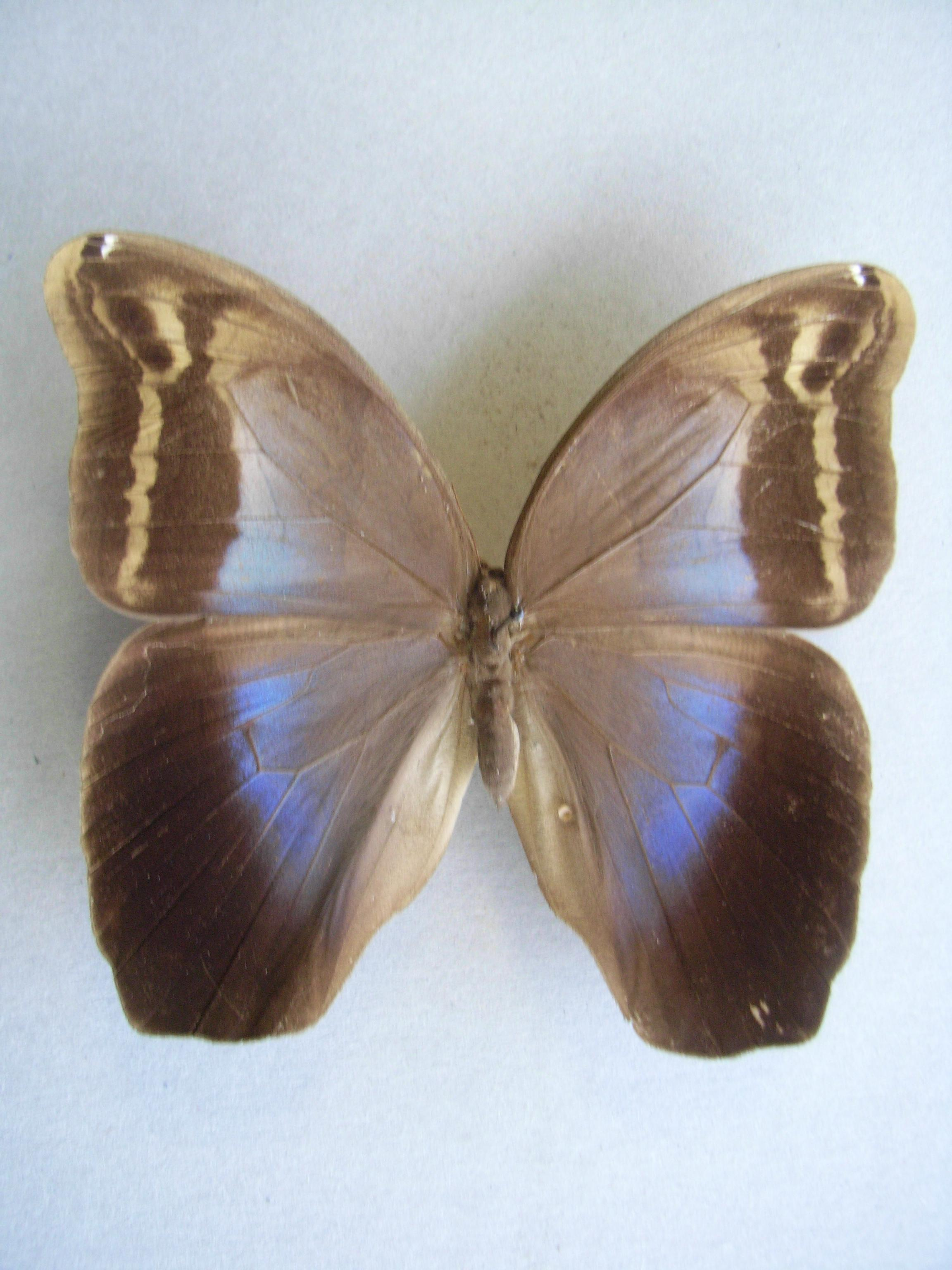 Eryphanus aesacus:Morphinae:Nymphalidae